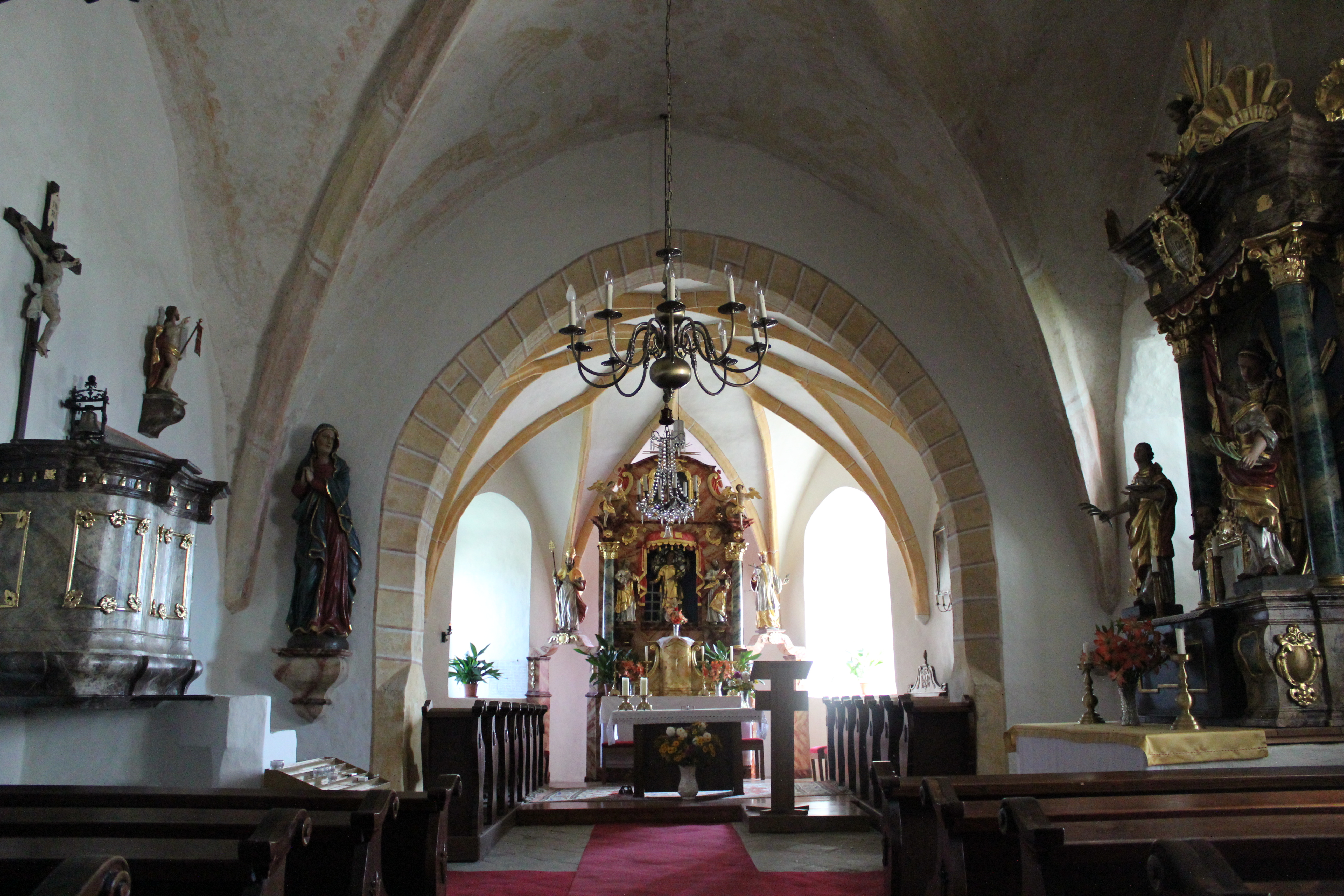 Church of Stein im Jauntal in the community of Sankt Kanzian am Klopeiner See interior